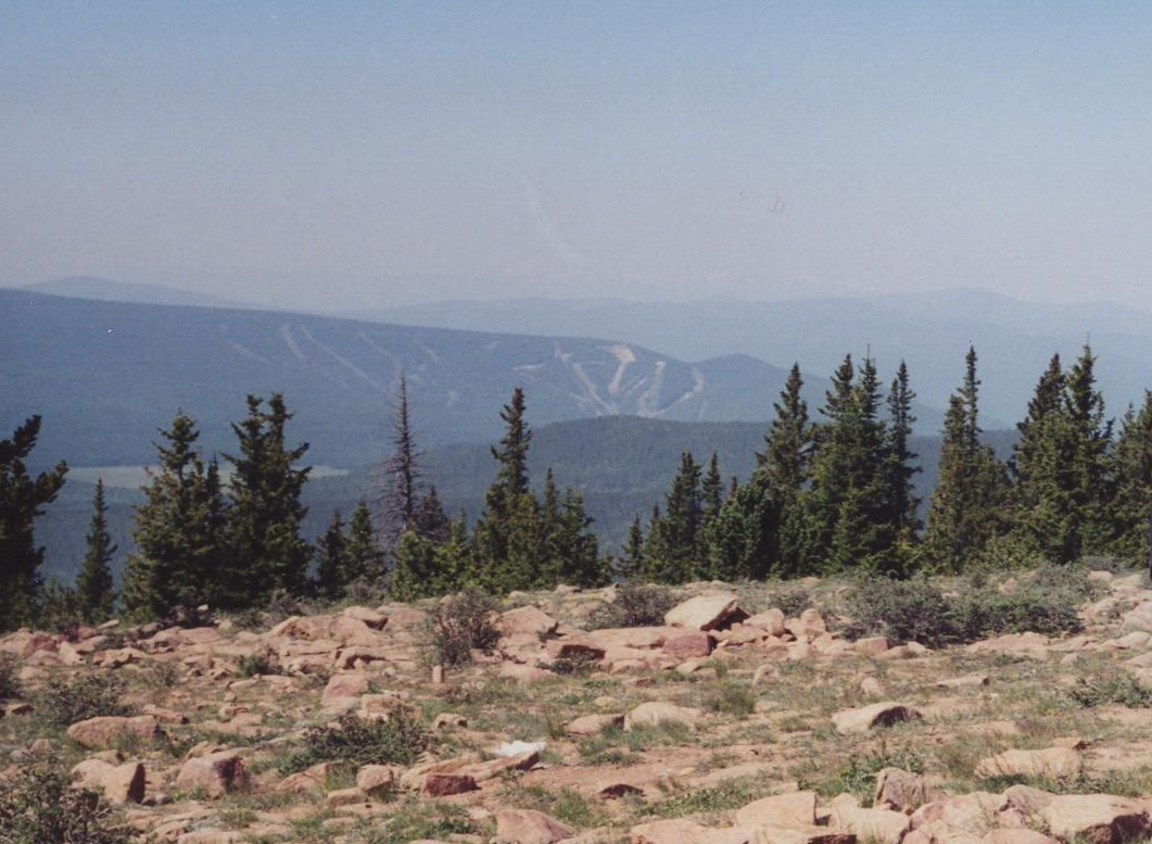 Mount Phillips looking south to Angel Fire Ski Area